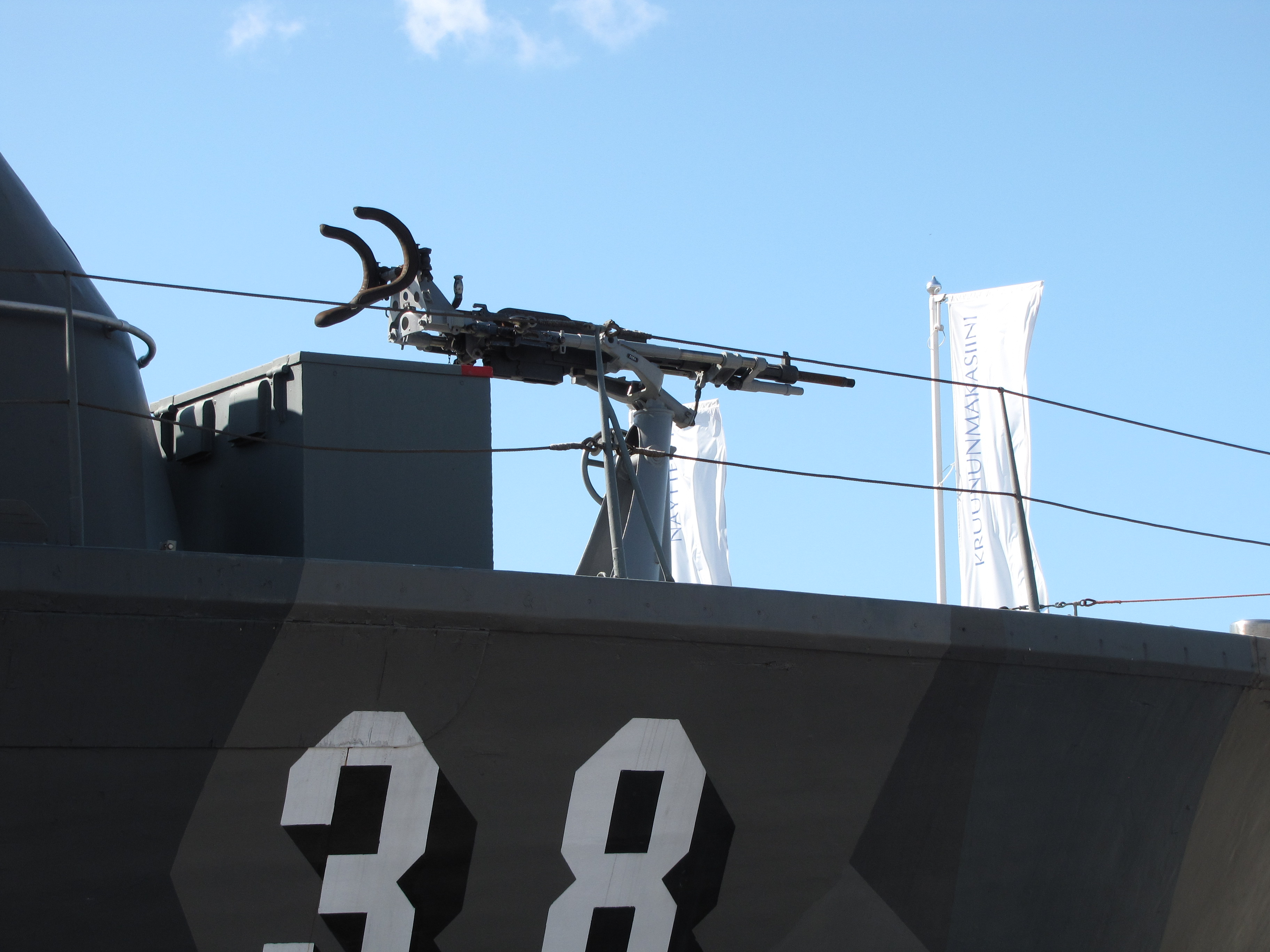 Bow 20 mm Madsen (model 20 60 M 39-44) of Finnish motor gun boat Nuoli 8 in Forum Marinum.